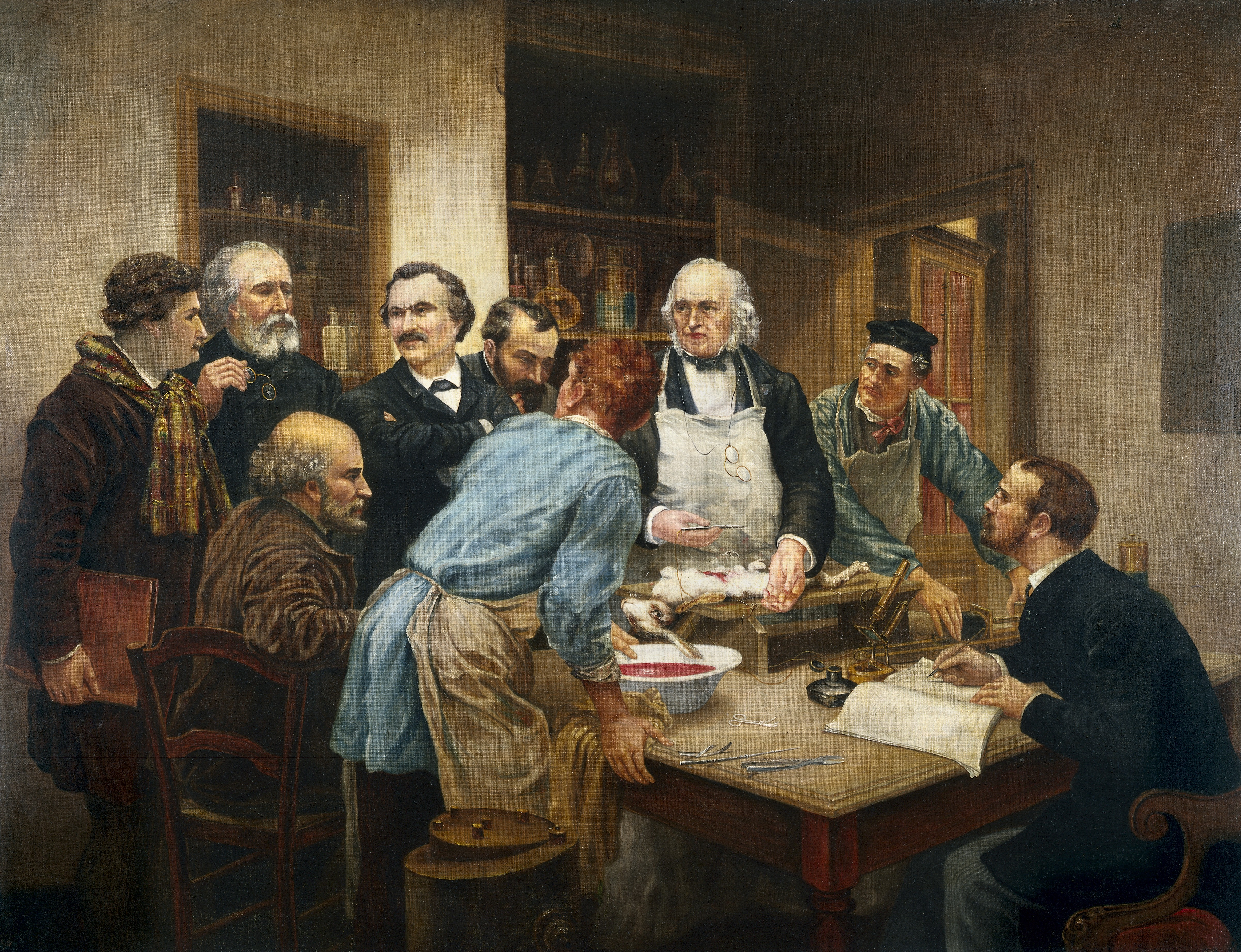 Claude Bernard [physiologist] and pupils Iconographic Collections Keywords: Claude Bernard; Leon L'Hermitte